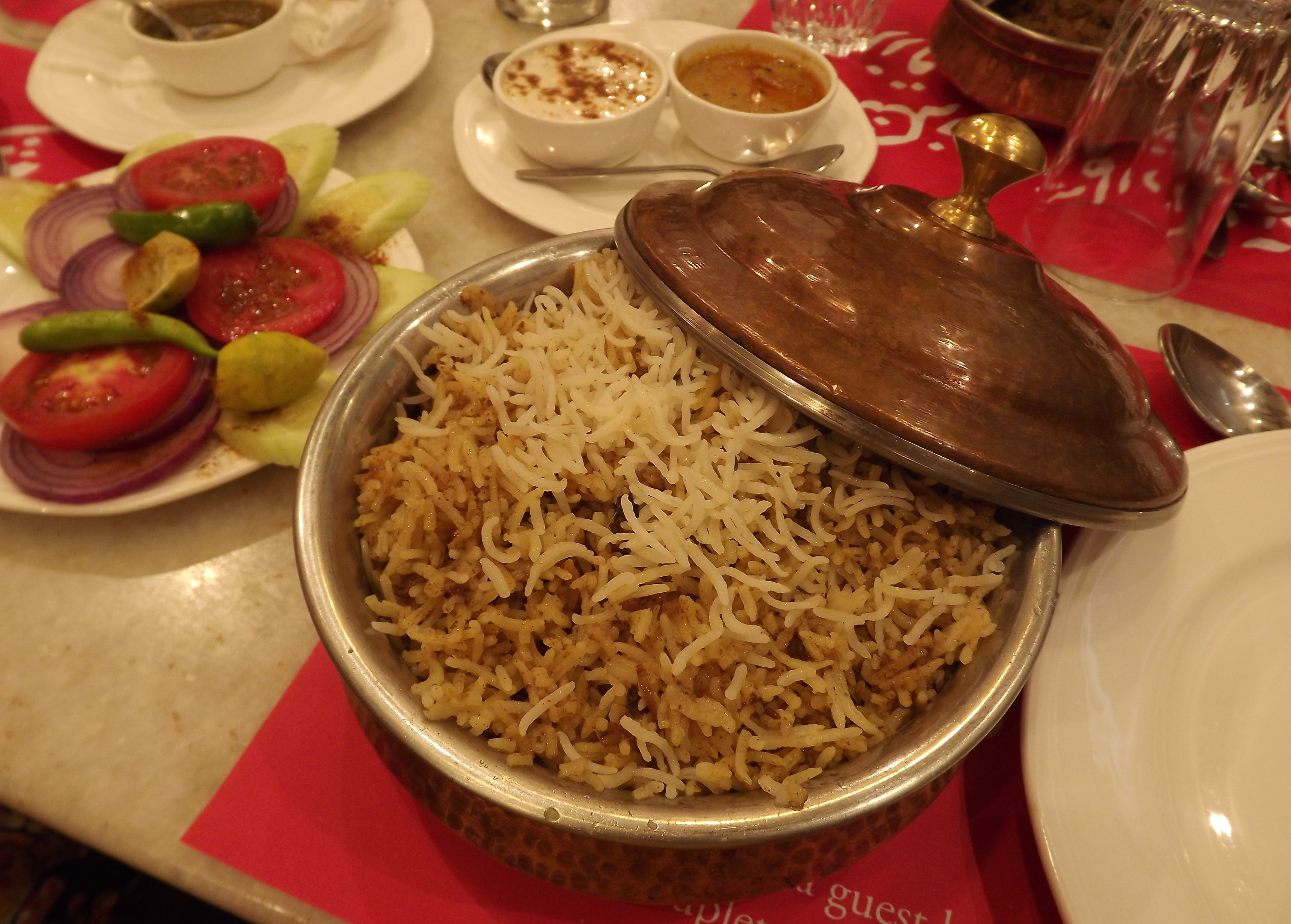 Hyderabadi Biryani with Raita, Mirchi Ka Salan and Salad at Khawab restaurant, Calcutta (Kolkata)